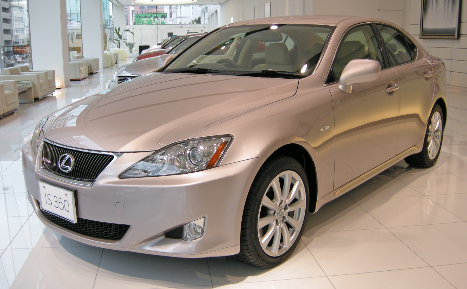 Lexus IS350 photographed in Lexus Gallery Takanawa (Minato, Tokyo)